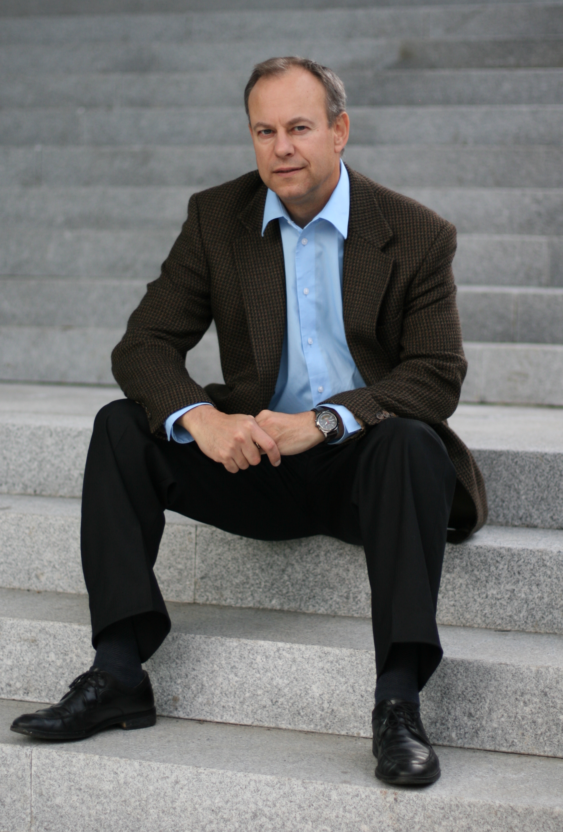 Personal Image